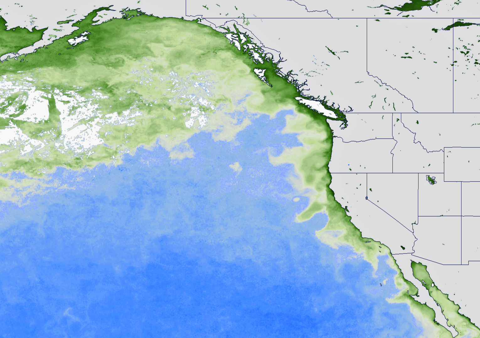 Map illustration based on satellite images showing the algal bloom in the western U.S. and Canada in 2015. Average chlorophyll concentrations (milligrams per cubic meter of water) in July 2015. The darkest green areas have the highest surface chlorophyll concentrations and the largest amounts of phytoplankton—including both toxic and harmless species. NOAA map based on Suomi NPP satellite data provided by NOAA View.